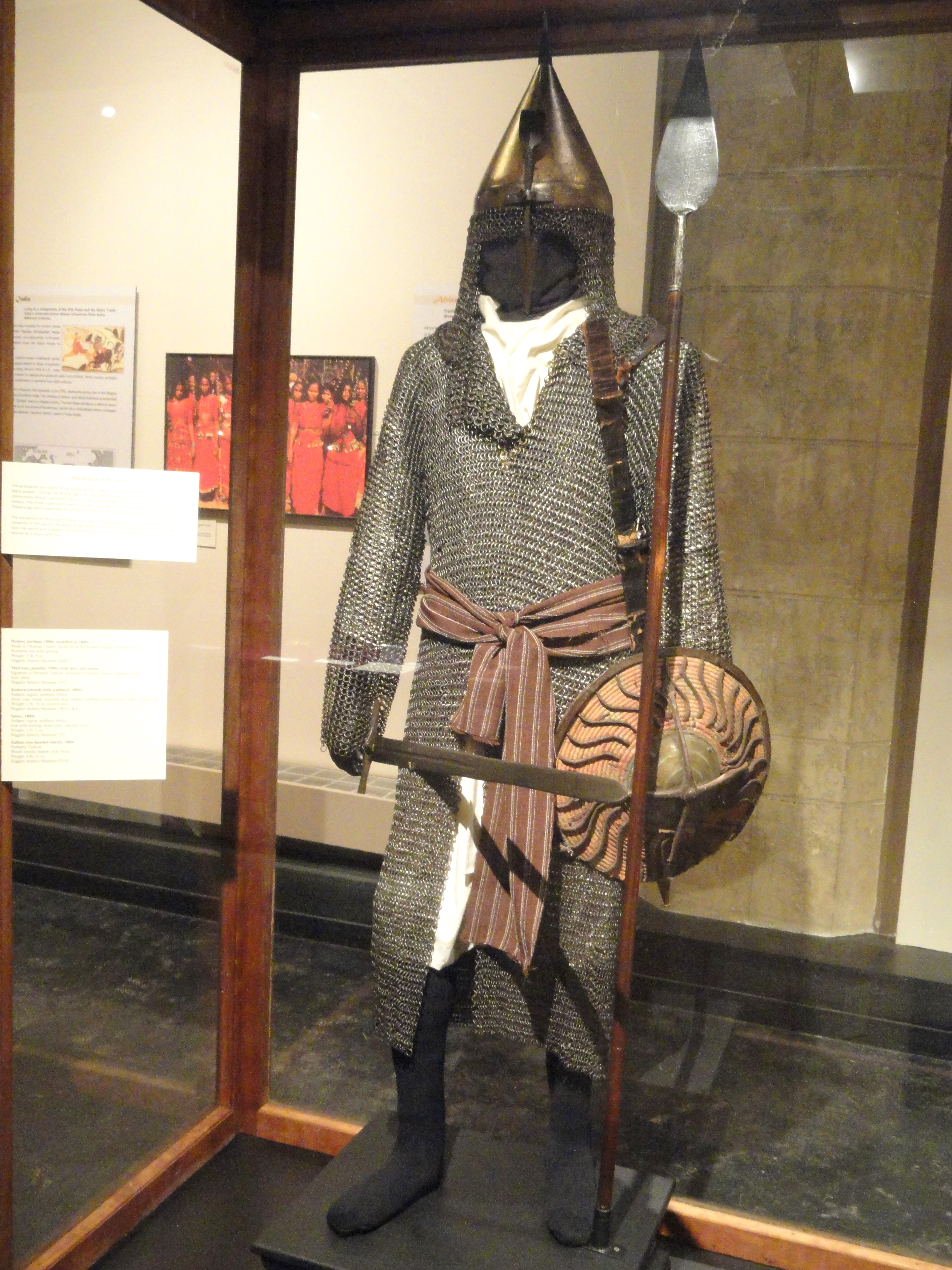 Exhibit in the Higgins Armory Museum, 100 Barber Avenue, Worcester, Massachusetts, USA. The museum permitted photography without any restriction, both in writing and when I asked verbally.